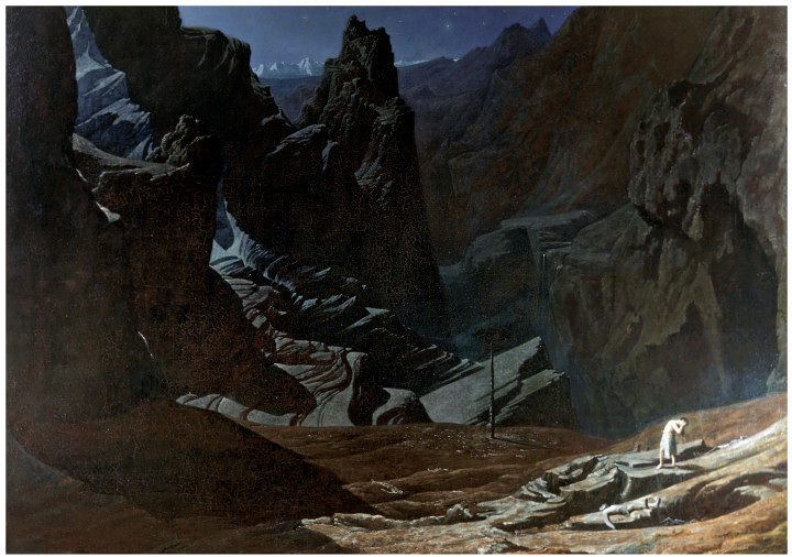 Francis Danby - The Upas, or Poison-Tree, in the Island of Java - painting by Francis Danby, oil on canvas, ca. 1820. 160.8 cm x 235.4 cm estimate. Inspired by legends about the tropical upas tree (Antiaris toxicaria), especially the account in Erasmus Darwin's "Loves of the Plants".